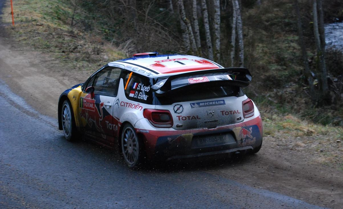 Loeb-Elena win Monte-Carlo Rally (WRC) with a Citroën DS3 WRC